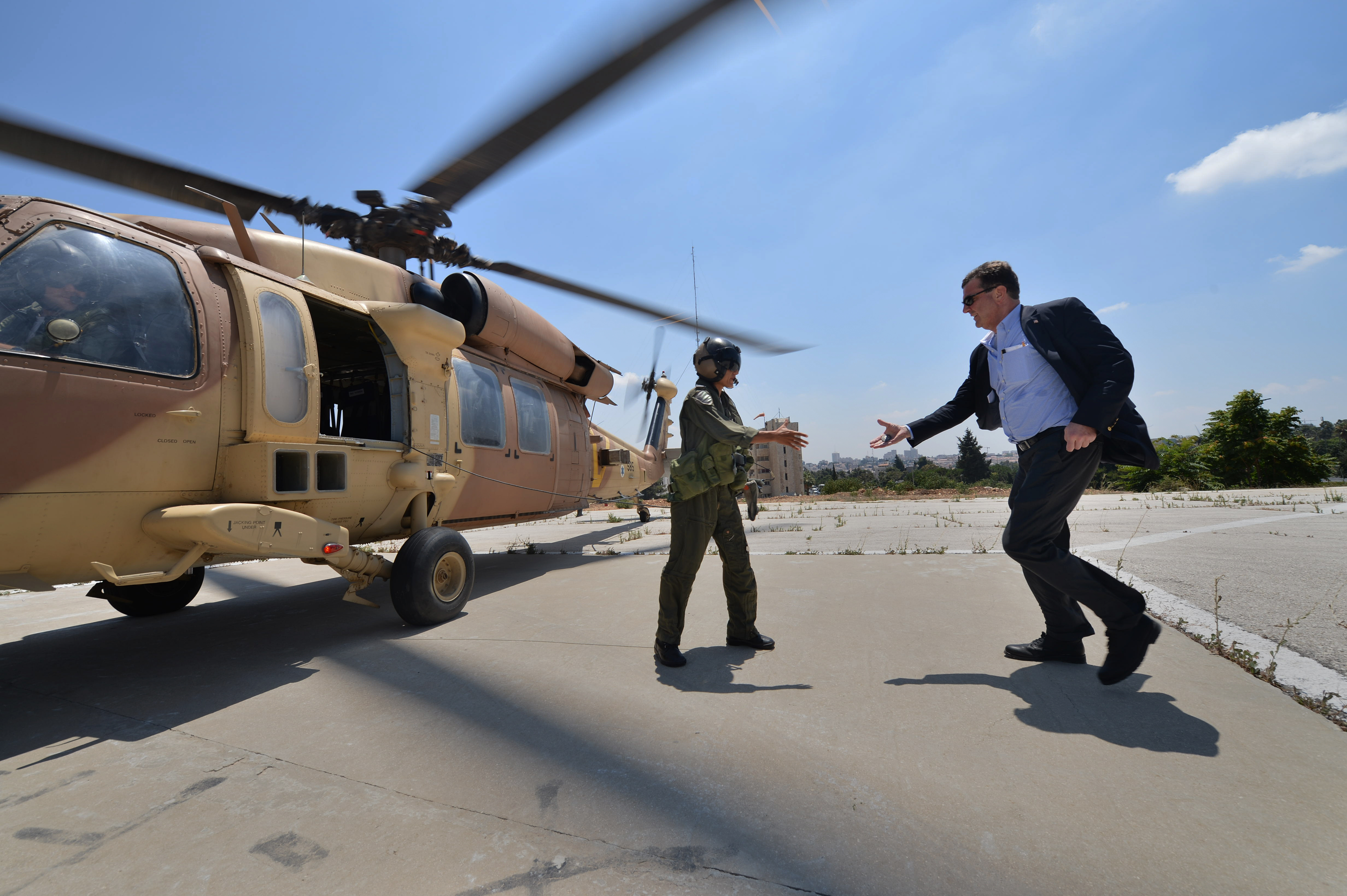 Deputy Secretary of Defense Ashton B. Carter thanks a member of the Israeli Defense Force after he rode in a helicopter to explore the Israeli security challenges July 22, 2013. Official DoD photo by Sgt. Aaron Hostutler U.S. Marine Corps (Released)